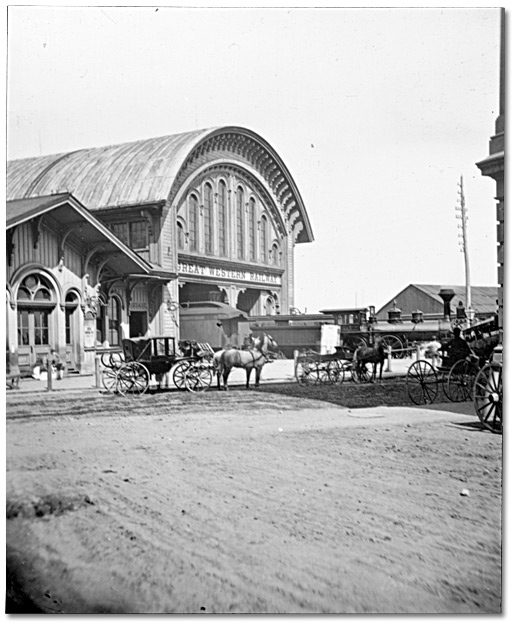 Great Western Railway Station located at Front and Yonge streets, Toronto, Canada